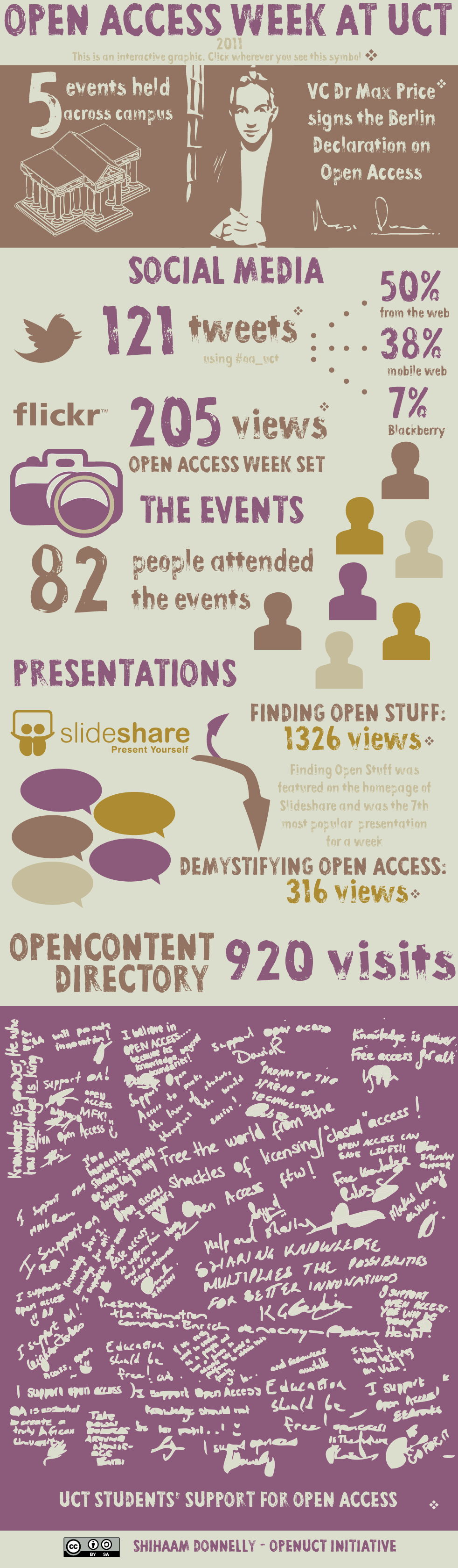 Infographic of activities during Open Access Week 2011 at University of Cape Town